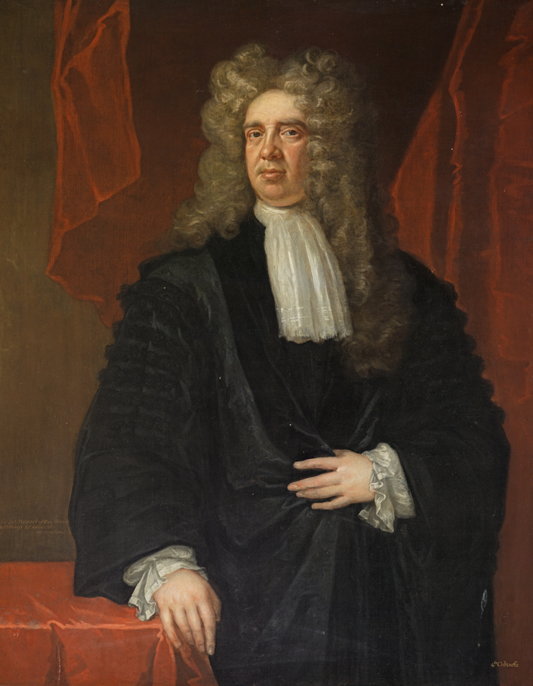 Portrait of Sir James Stewart (1635–1715), Lord Advocate of Scotland.